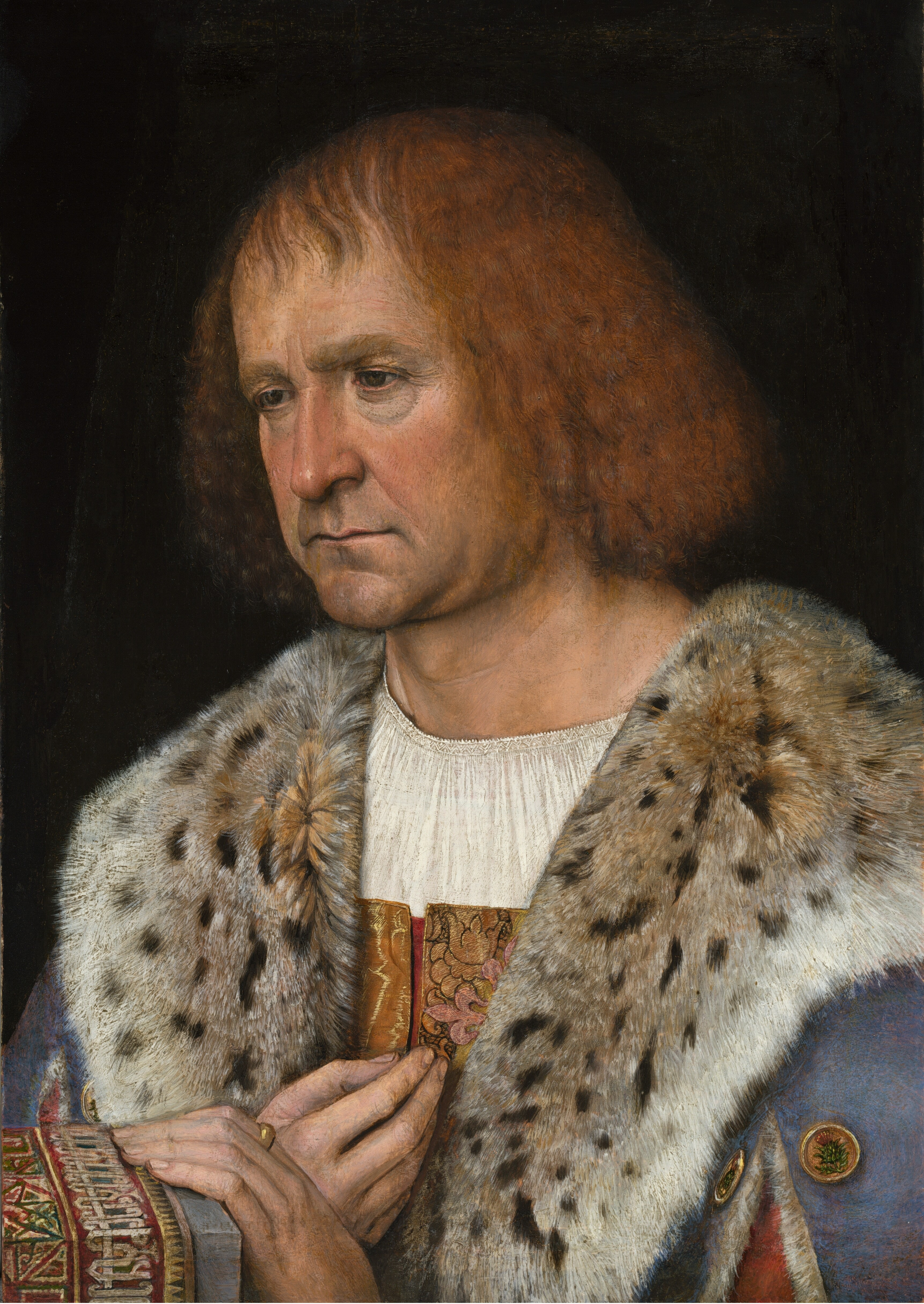 Inner right wing of a diptych.